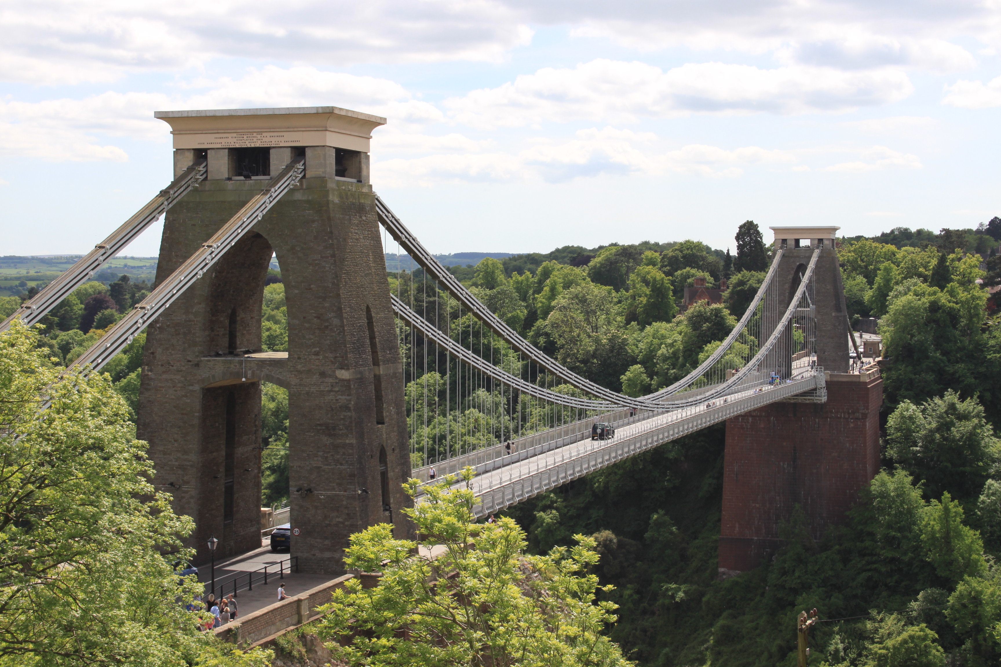 Clifton Suspension Bridge